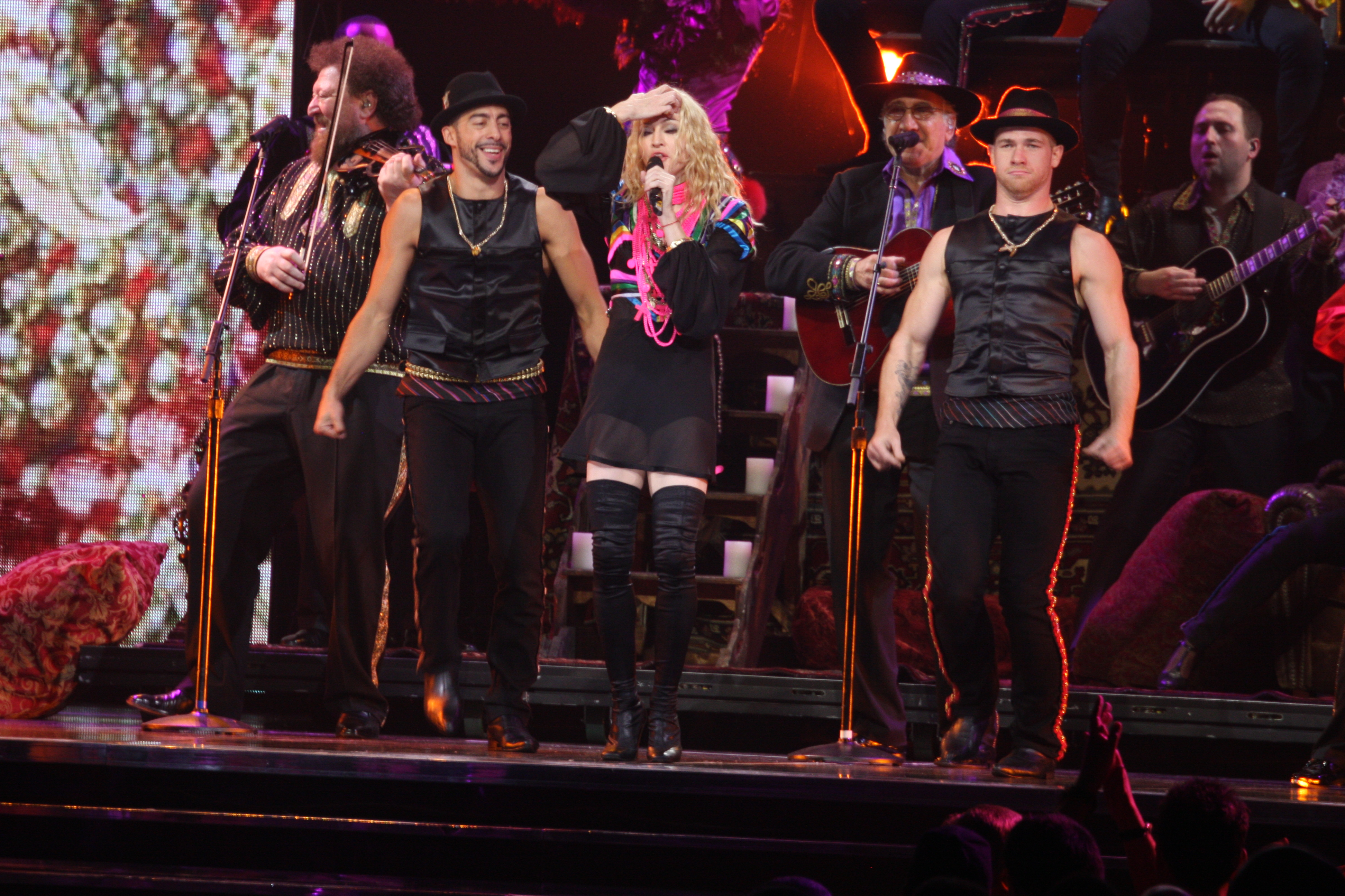 La Isla Bonita Sticky & Sweet Tour 2008